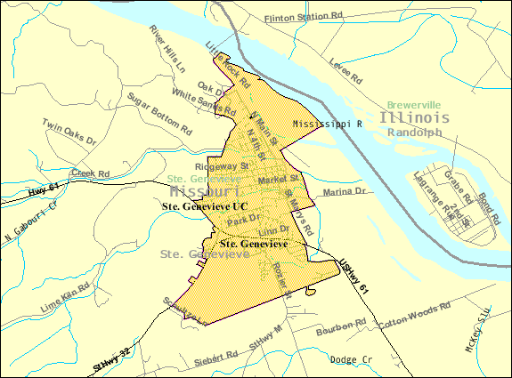 U.S. Census 2000 reference map for Ste. Genevieve in Missouri.